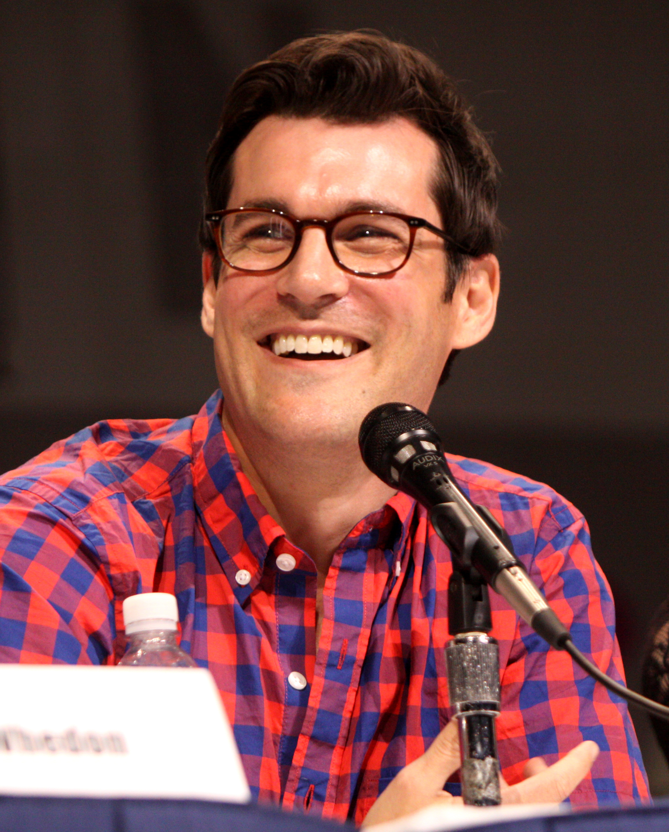 Sean Maher speaking at the 2013 WonderCon in Anaheim, California on March 31, 2013.